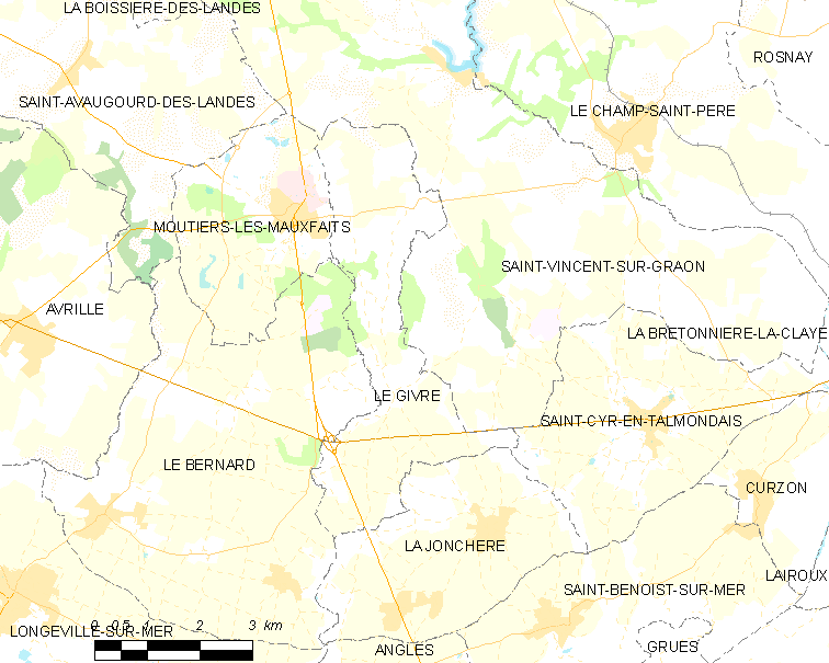 Map of French municipality Le Givre